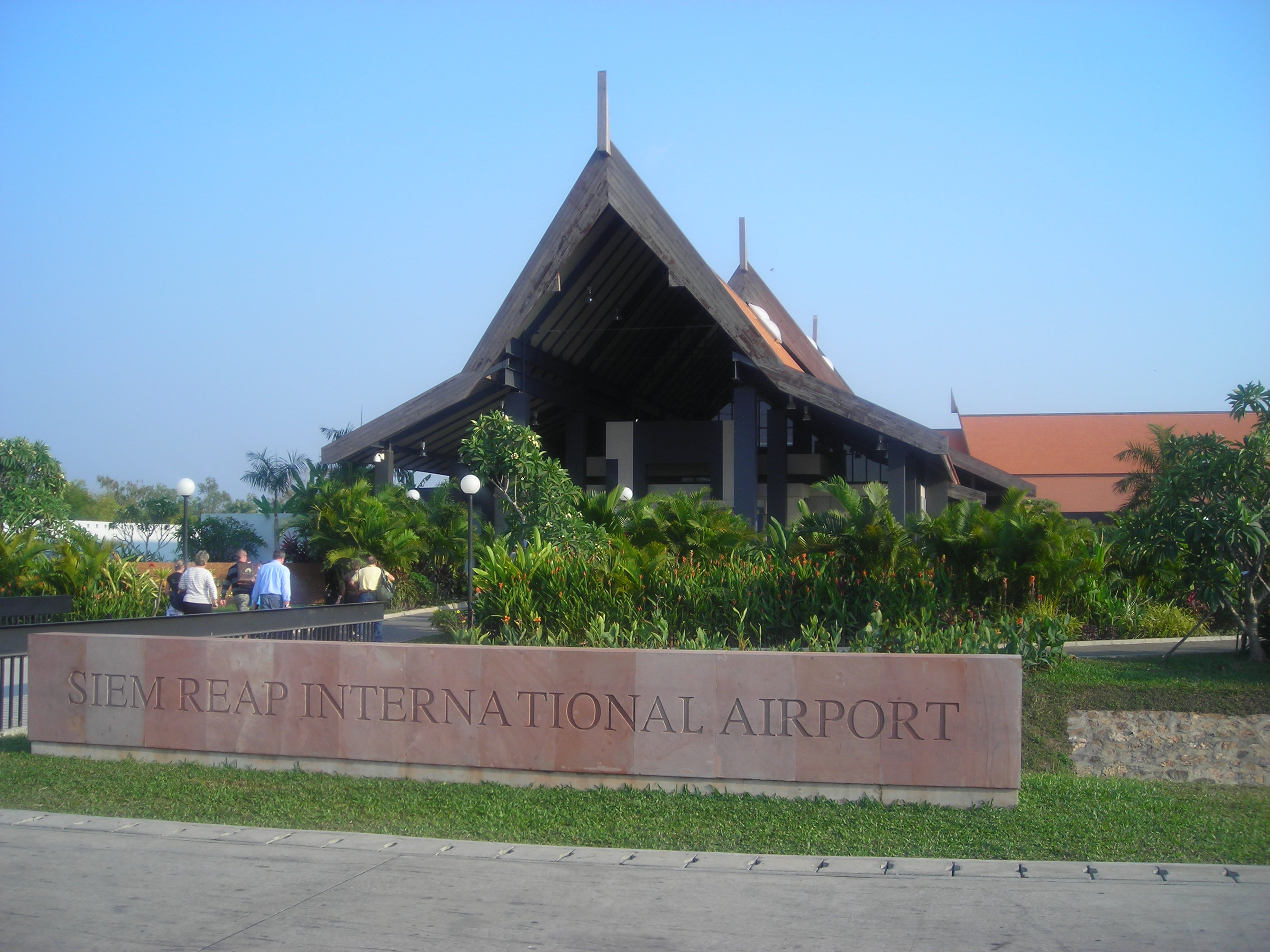 Siem Reap International Airport seen from the runway